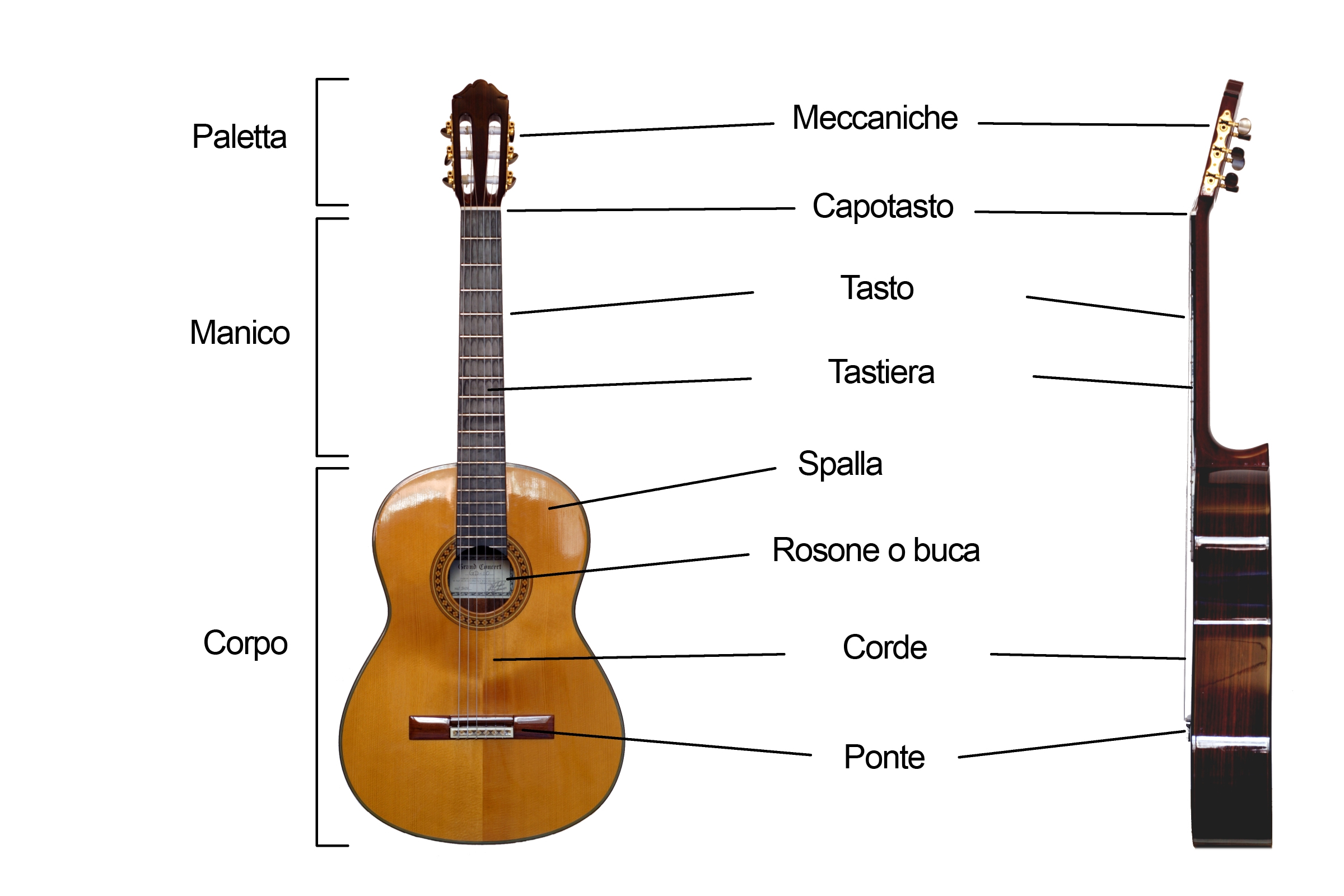 Classical Guitar, front and side view, labelled in Italian This image shows two views of a classical guitar. The main parts are labelled in Italian. Camera data 8 II Focal length: 50 mm